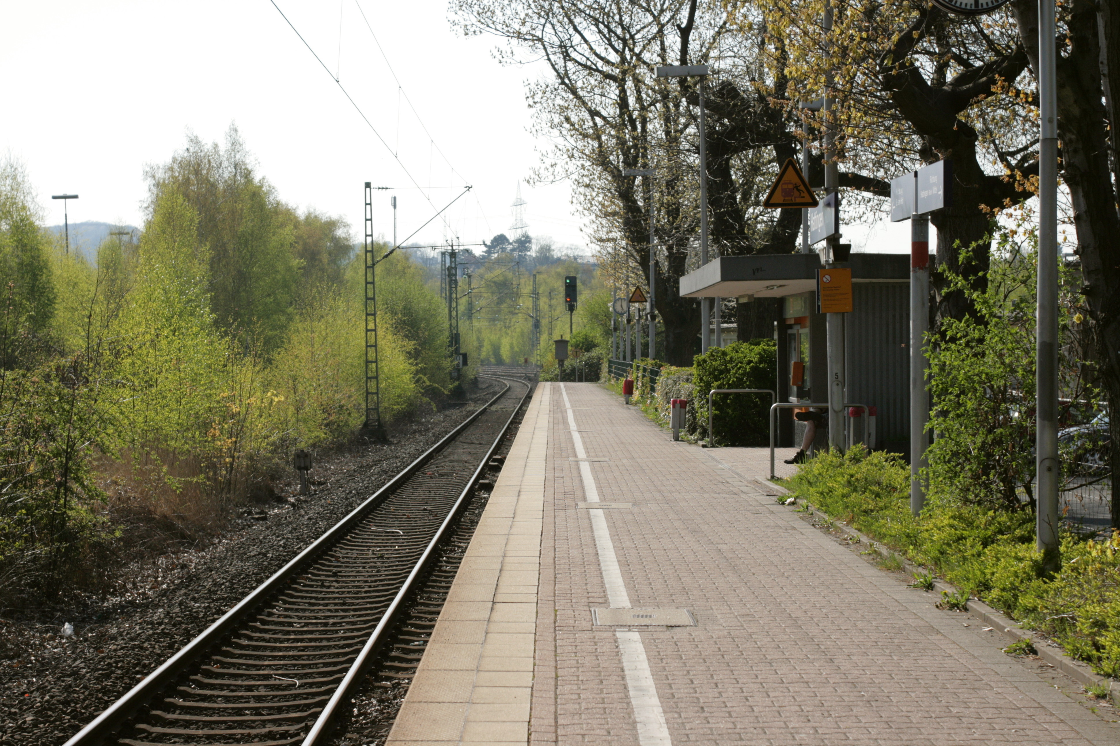 Bahnhof in Hattingen